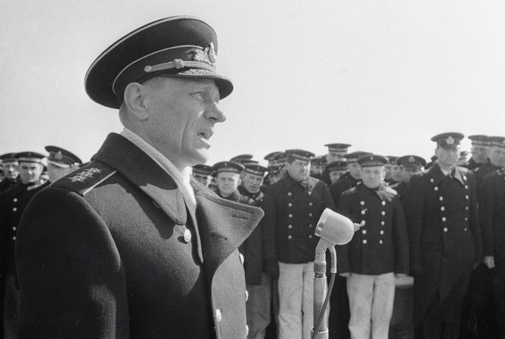 “Admiral Amelko addressing sailors”. Commander of the Pacific Fleet, holding the Order of Red Banner, admiral N.N. Amelko is addressing the crew of the cruiser "Dmitry Pozharsky".